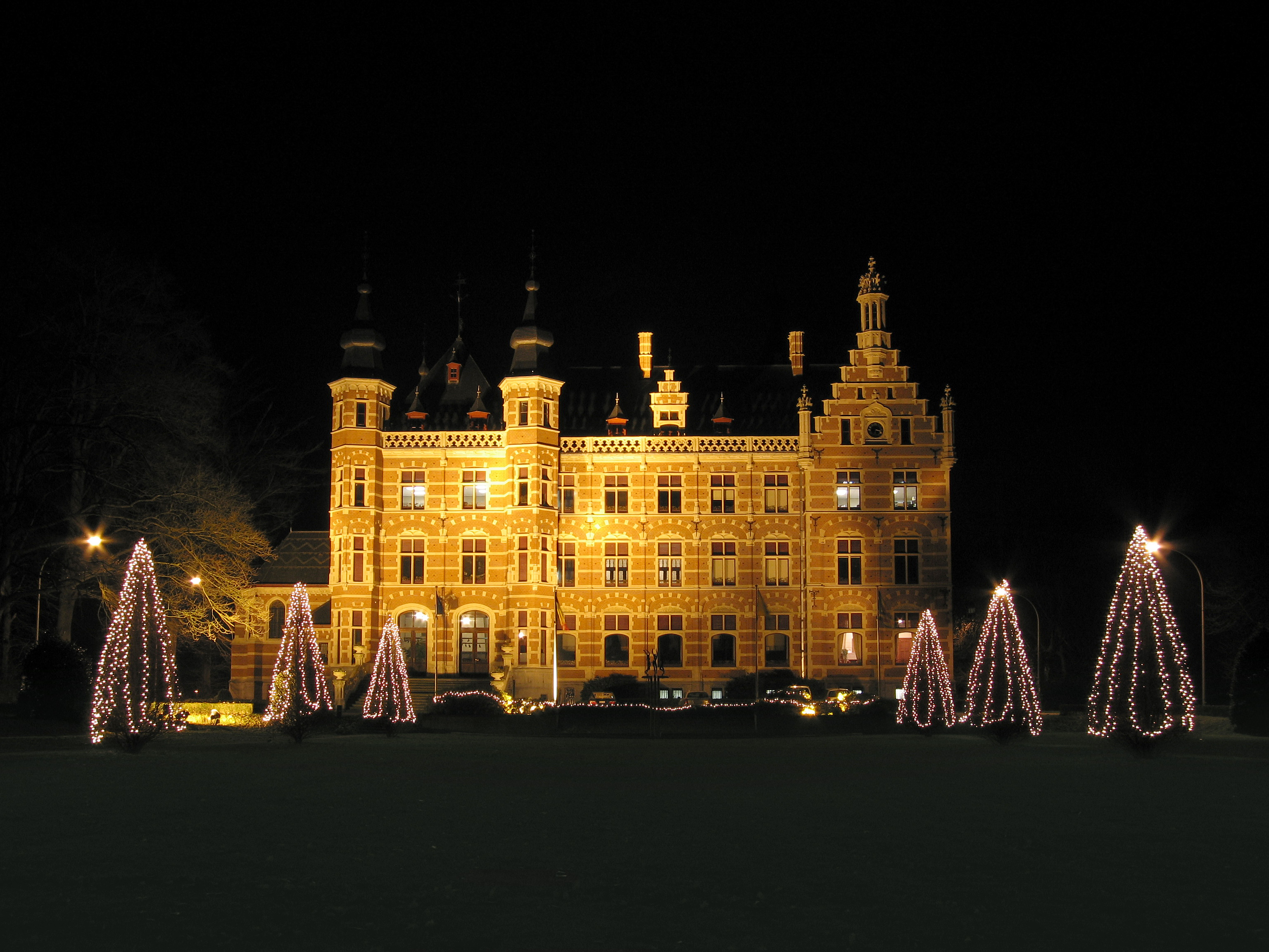 City Hall of Westerlo, Belgium, with Christmas and Newyear lights